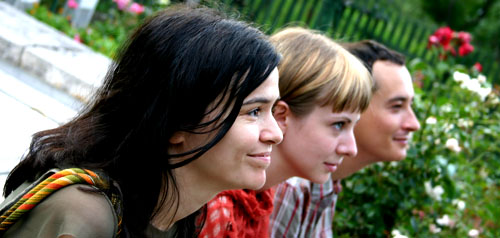 A sample image for image burning -- this image is burned by applying too much contrast. Copyright Gutza 2004